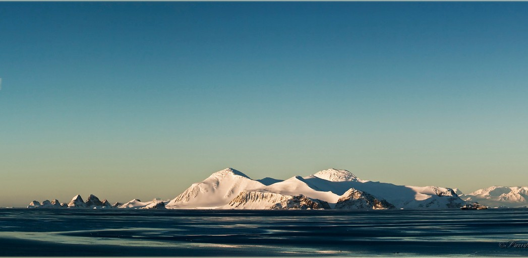 Astrolabe Island off Trinity Peninsula, Antarctica.